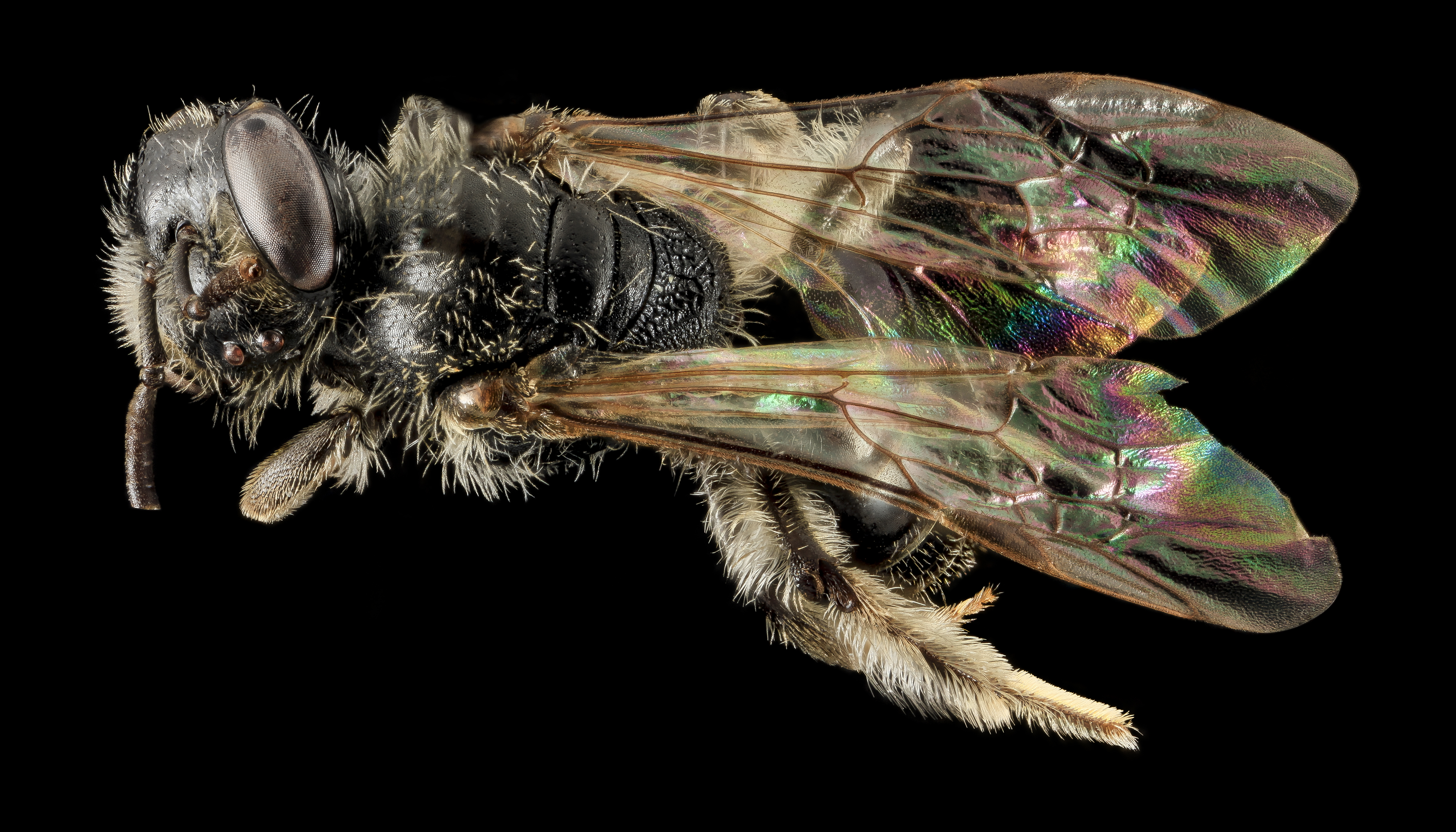 Andrena melanochroa. A little tiny Andrena bee collected in the sandhills of North Carolina by Heather Campbell. Not much is know about this species, other than it appears to be uncommon and spotty in occurrence and runs from the West to the East coast with a fair amount of variation, which usually indicates that other species may be hidden within this one. So much work to do. Photograph by Brooke Alexander. Canon Mark II 5D, Zerene Stacker, 65mm Canon MP-E 1-5X macro lens, Twin Macro Flash, F5.0, ISO 100, Shutter Speed 200, link to a .pdf of our set up is located in our profile